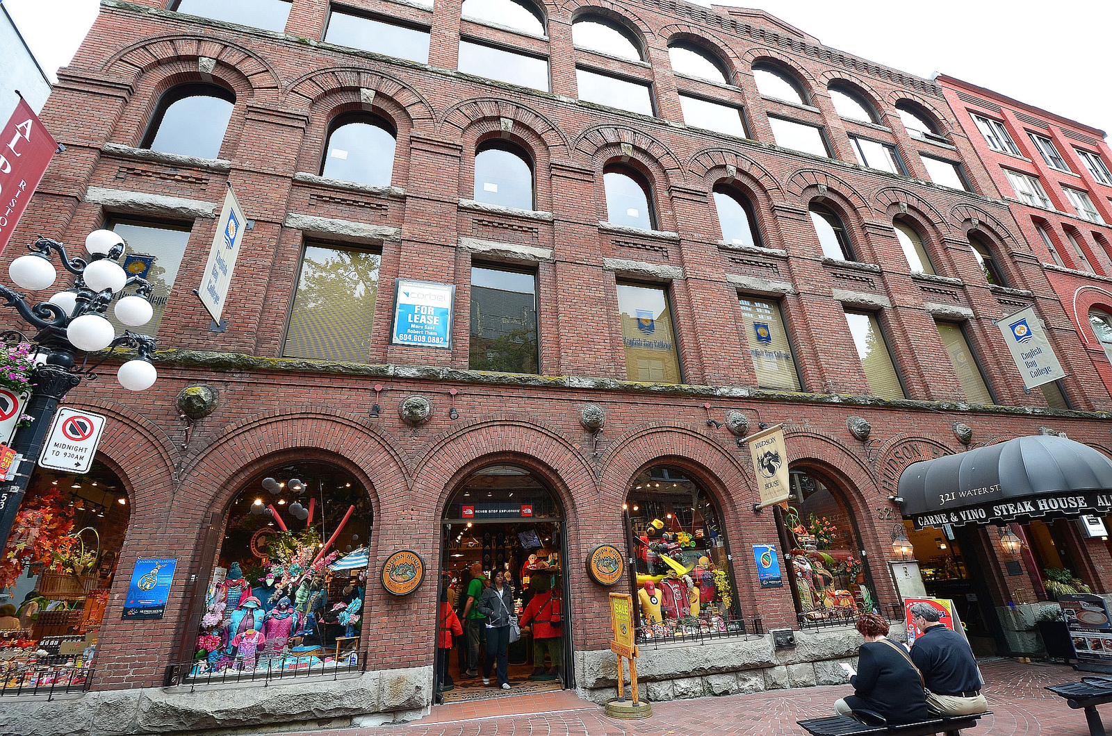 Hudson's Bay Company Warehouse, 321 Water Street, Vancouver.